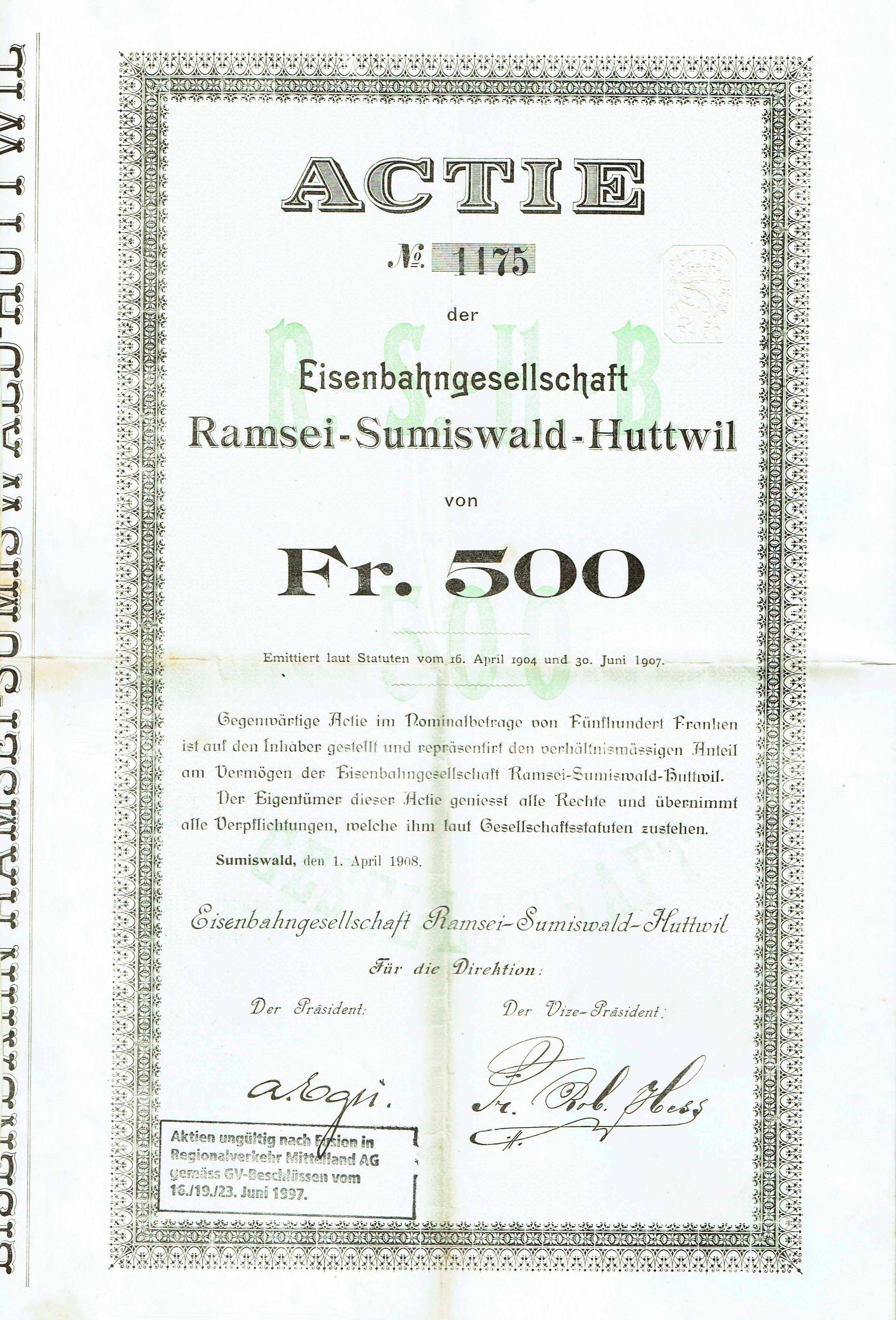 Share of the Eisenbahngesellschaft Ramsei-Sumiswald-Huttwil, issued 1. April 1908